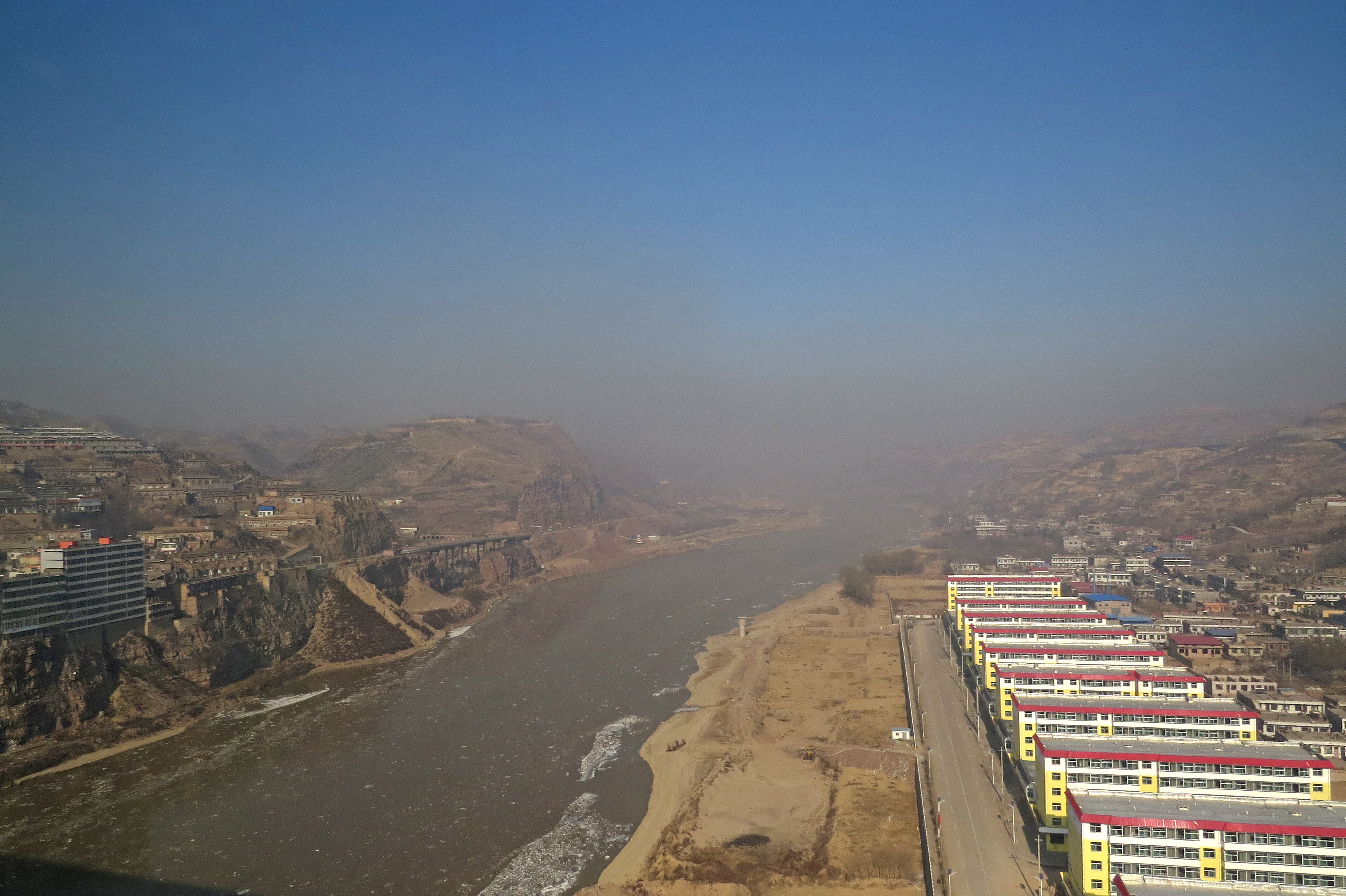 Taken from Z70 Urumqi-Beijing train as we were entering Shanxi.